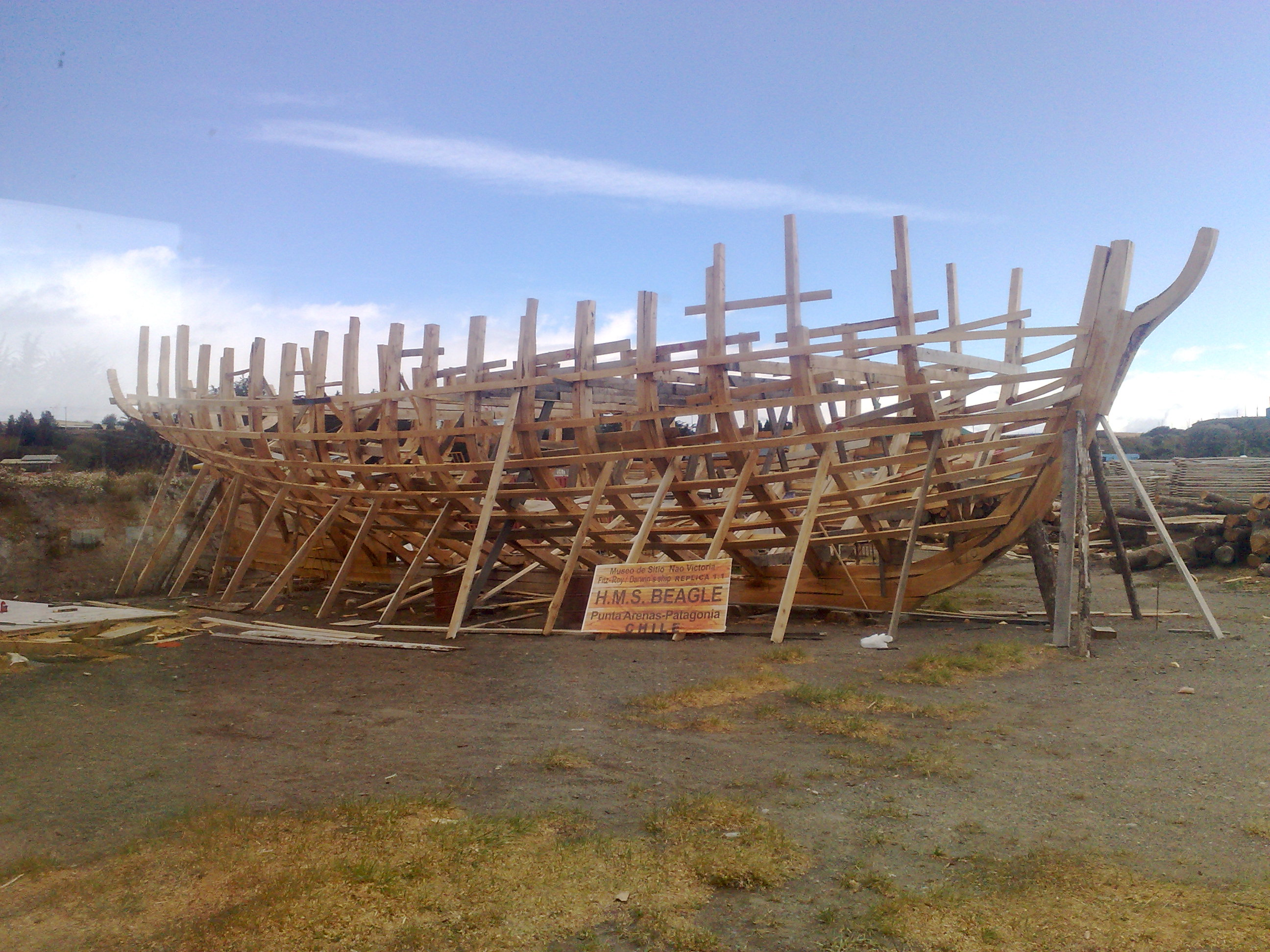 This is a picture of the construction site of the full scale replica of the HMS Beagle in the Nao Victoria Museum in Punta Arenas - Chile